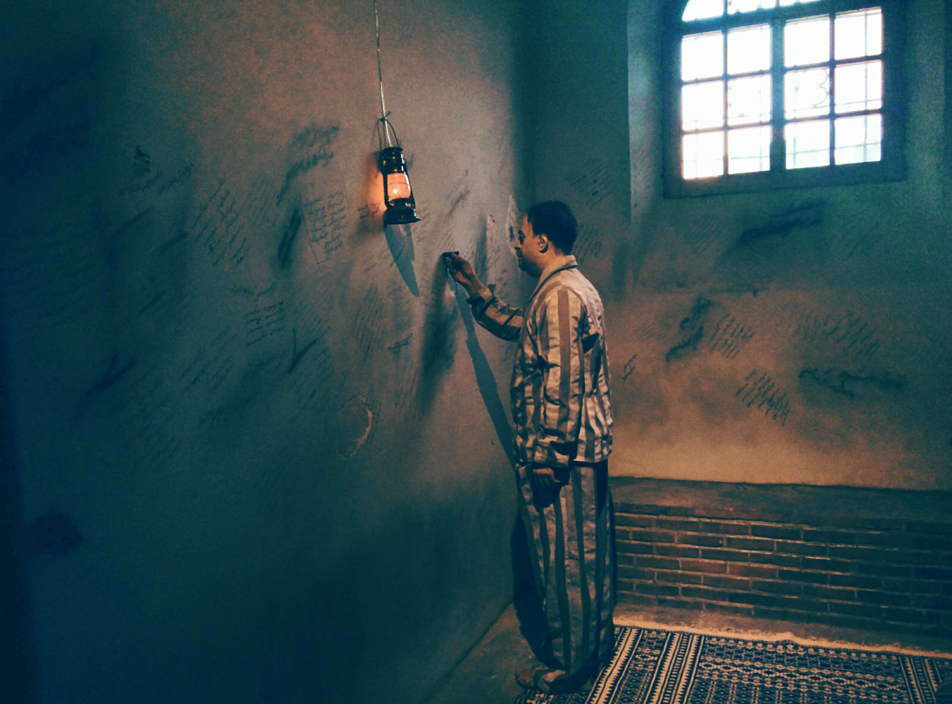 Qasr Prison in Tehran